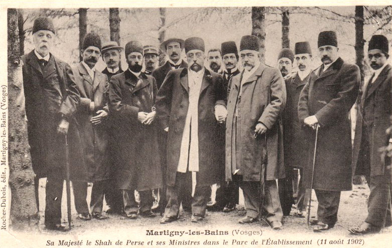 Postcard of Mozaffaredin Shah visiting Martigny les Bains in France, 1902